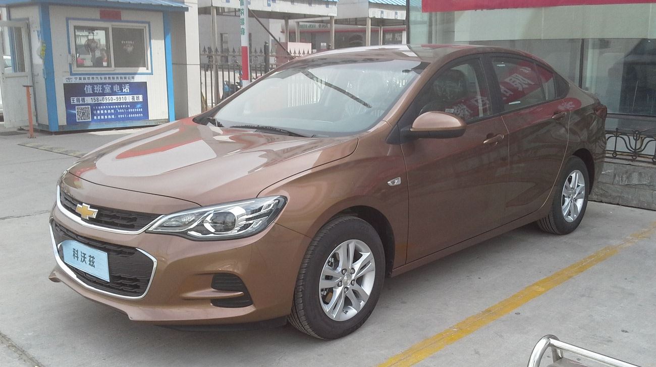 Chevrolet Cavalier CN photographed in Yinchuan, Ningxia province, China.